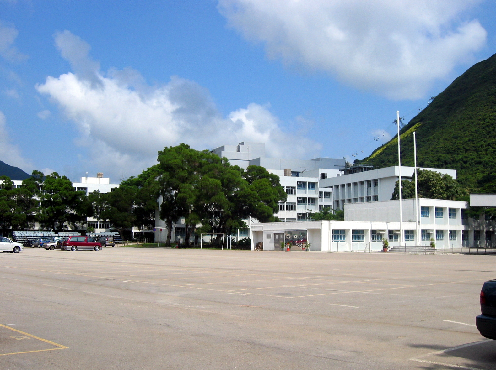 Wong Chuk Hang Police College in 2005 黃竹坑香港警察學院